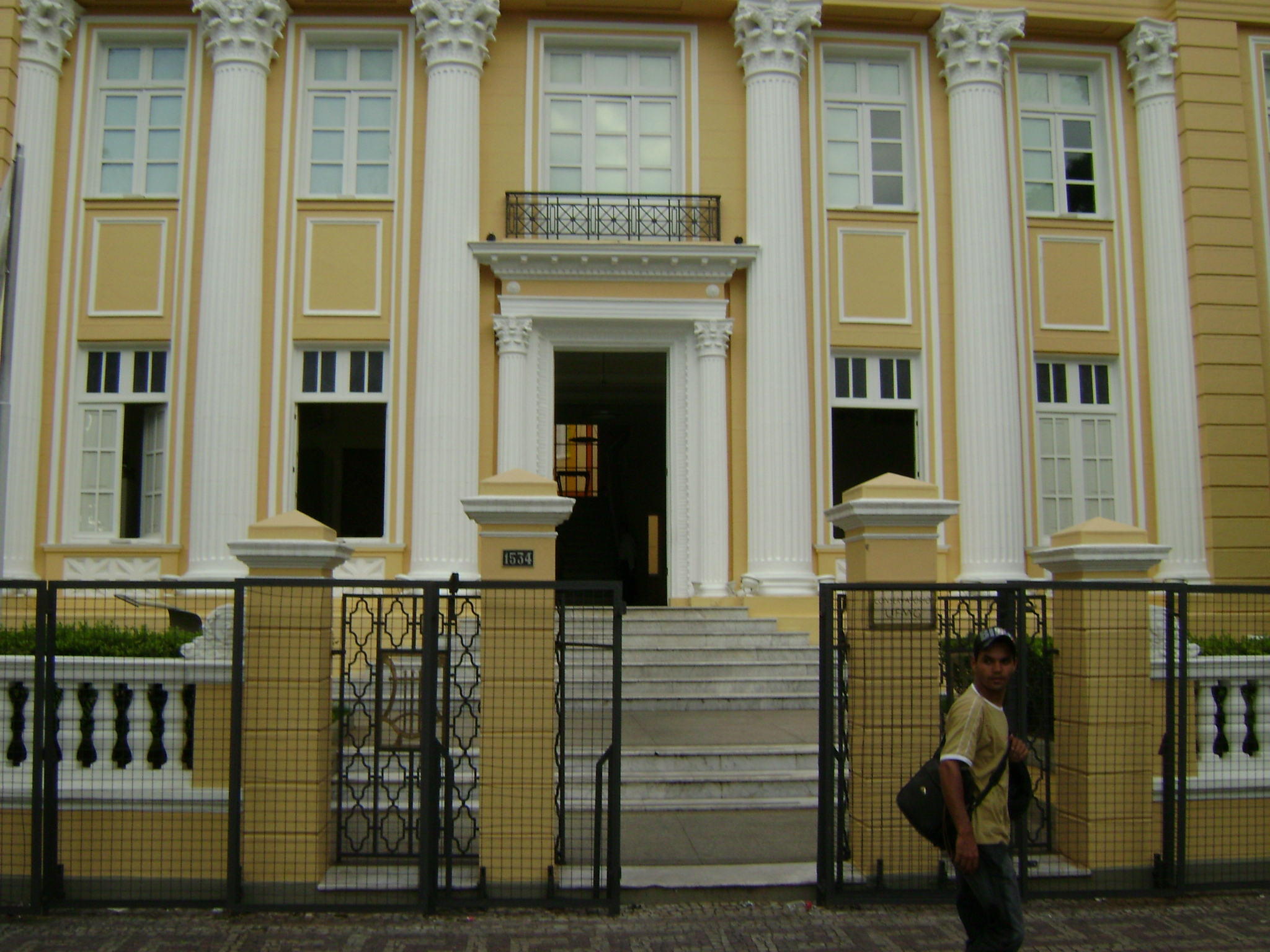 Conservatório da UFMG